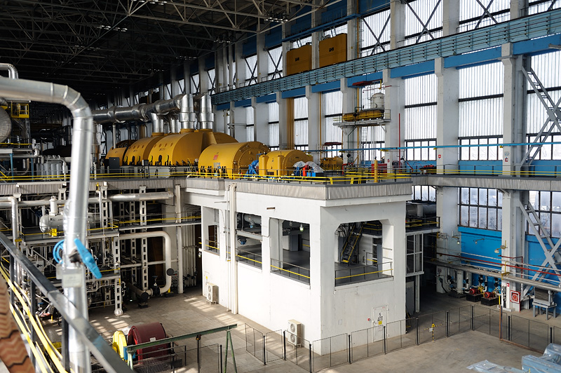 The machine room of Units 3 and 4 of the Kozloduy Nuclear Power Plant is quiet and deserted - the reactors were shut down in 2006 and there is no steam to drive the turbines.